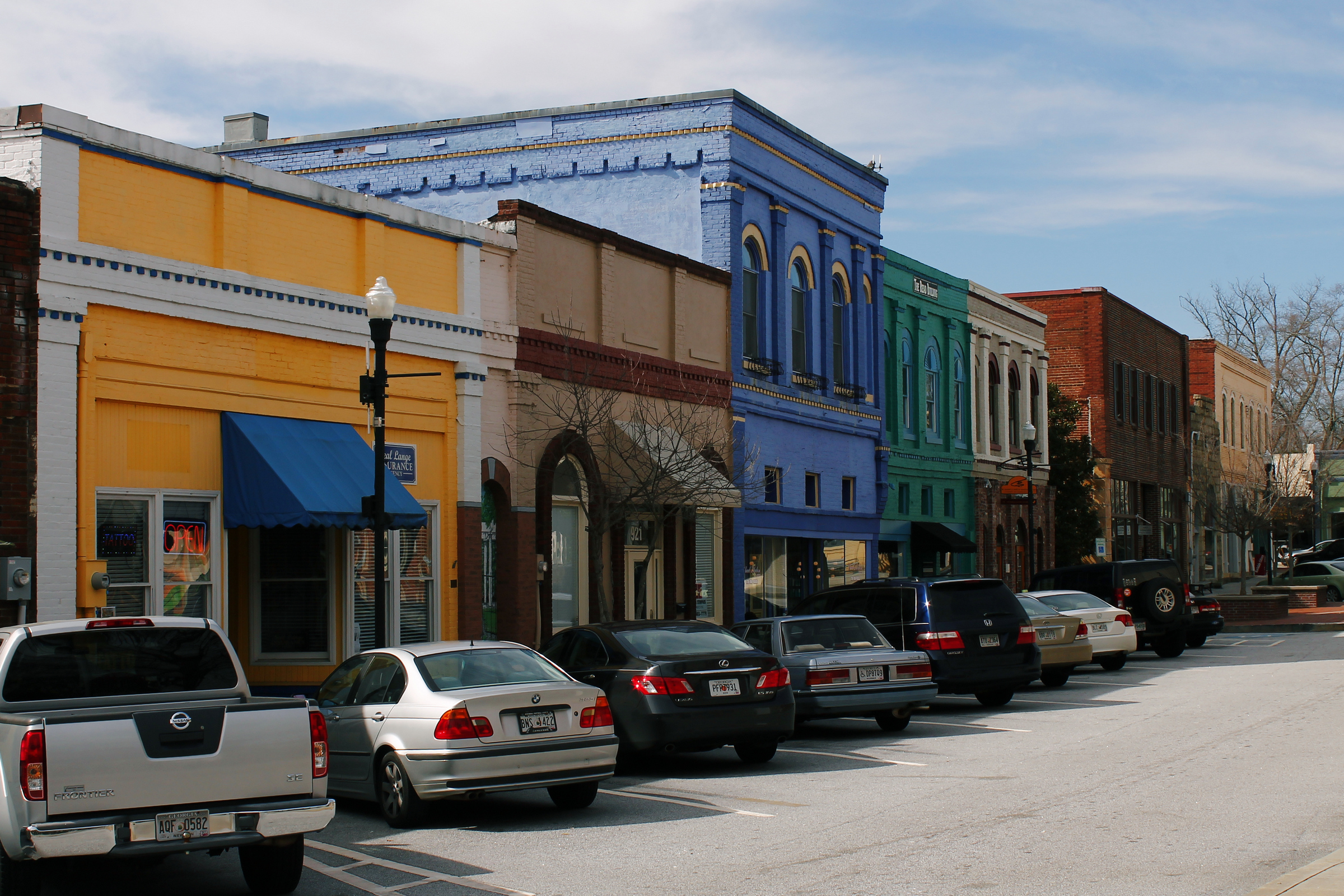 DowntownConyersColor2